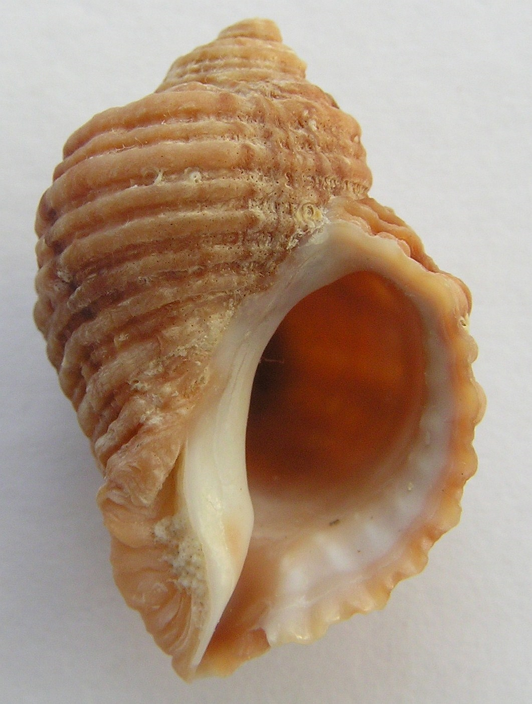 Nucella freycinetii (Deshayes, 1839) , a murex snail in the family Muricidae; Japan